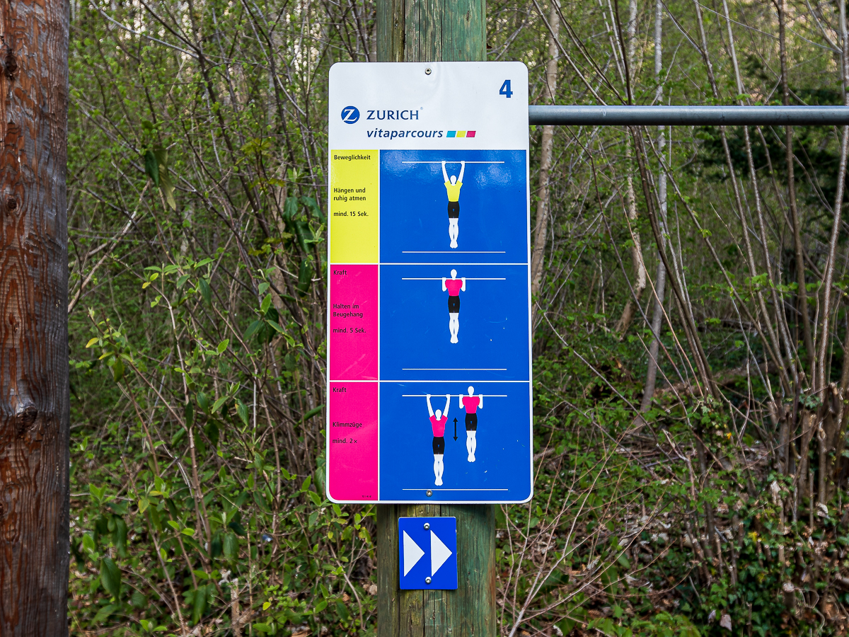 Vitaparcours Walenstadt SG